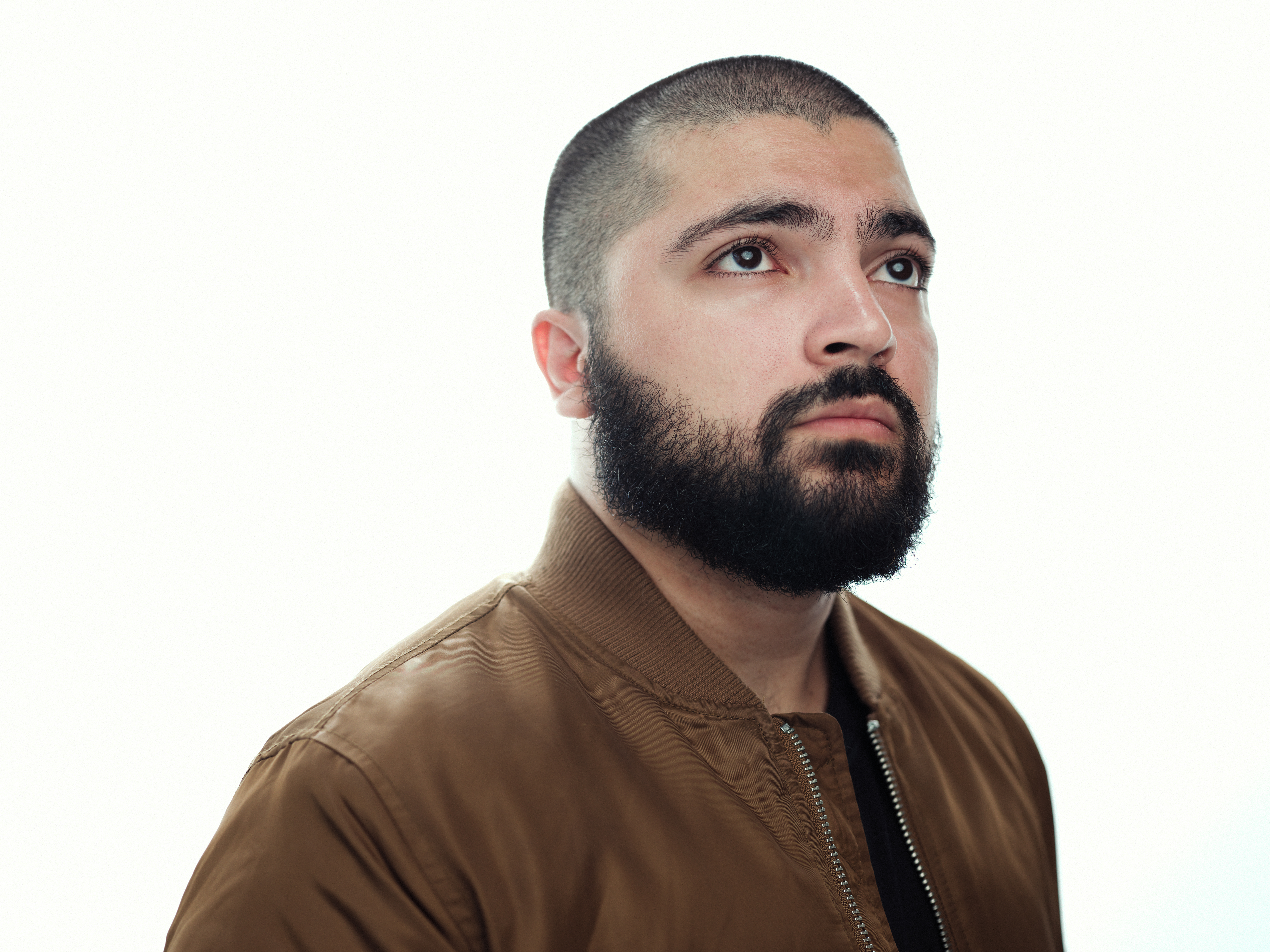 Everipedia cofounder Sam Kazemian in 2018